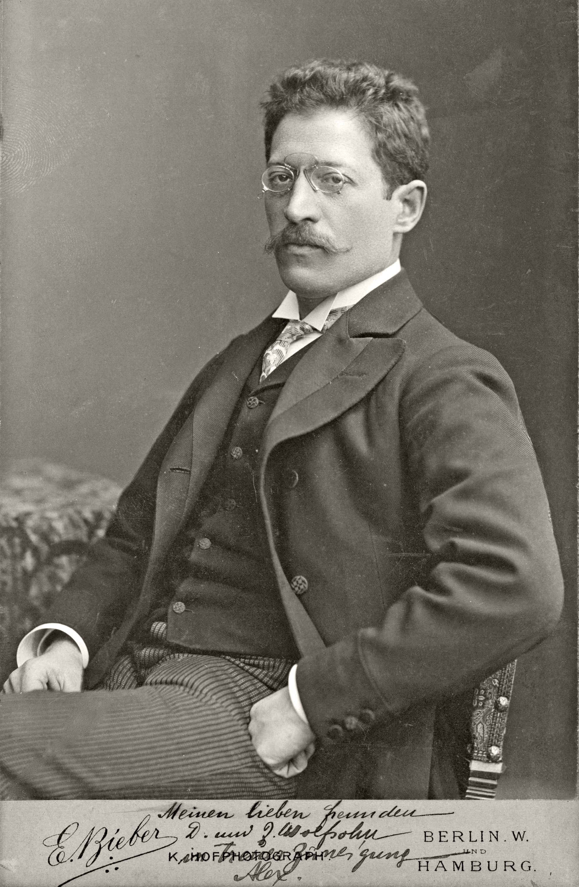 Picture of Alexander Marmorek